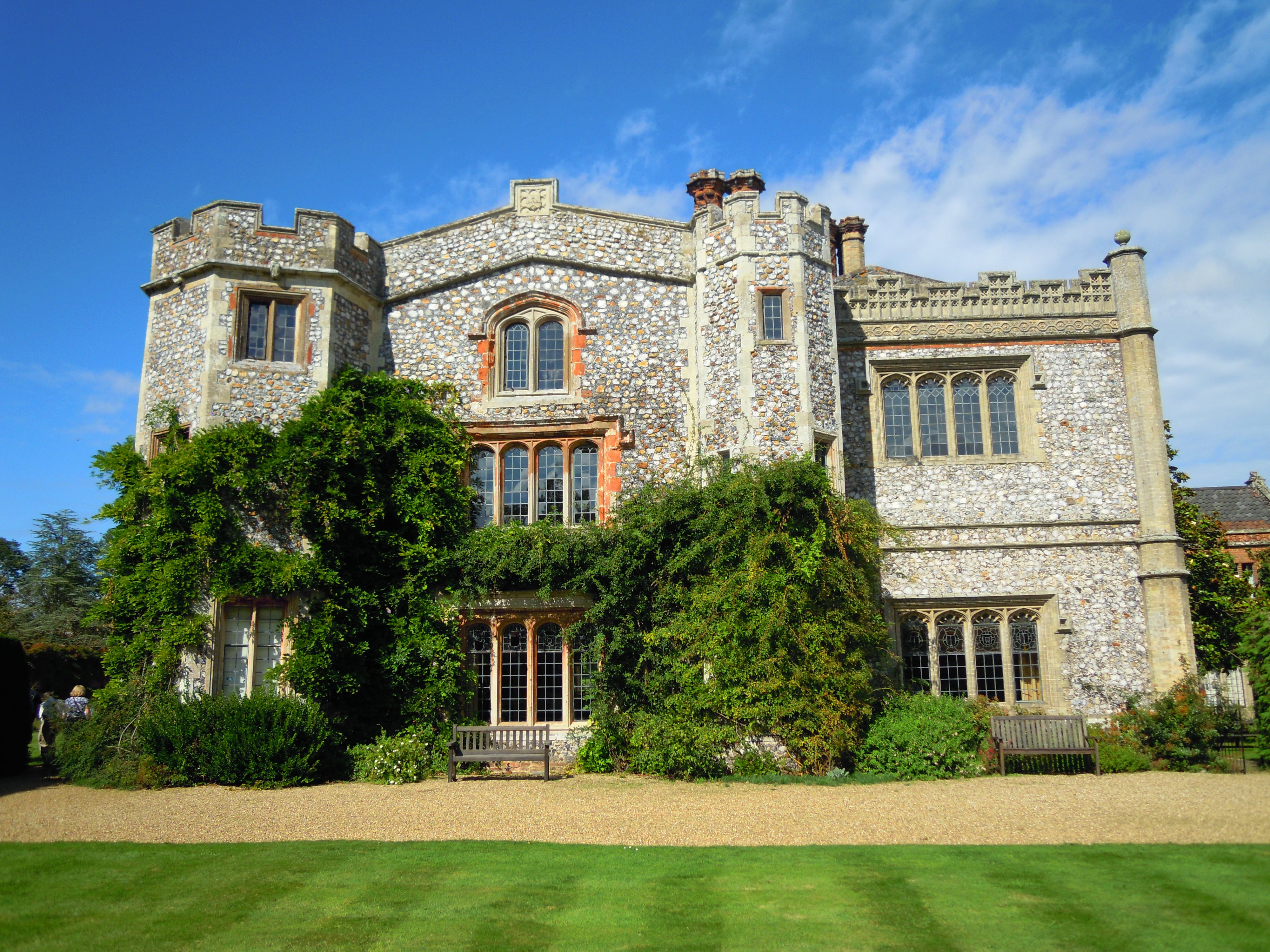 The south facing façade of Mannington Hall, Norfolk, United Kingdom.